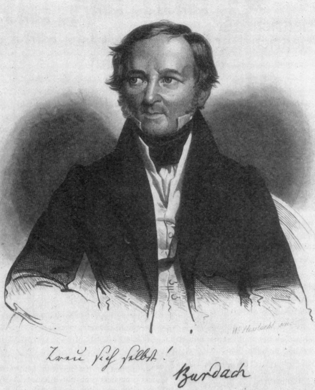 Karl Friedrich Burdach